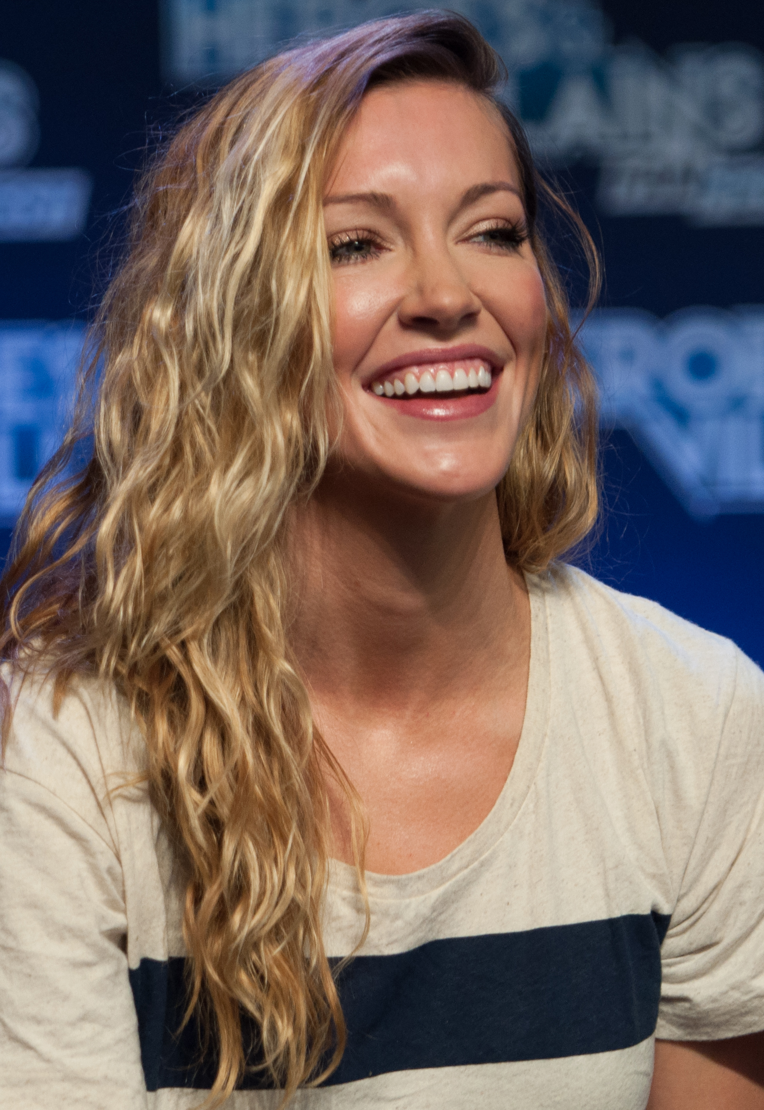 Katie Cassidy and Paul Blackthorne HVFF 2016.